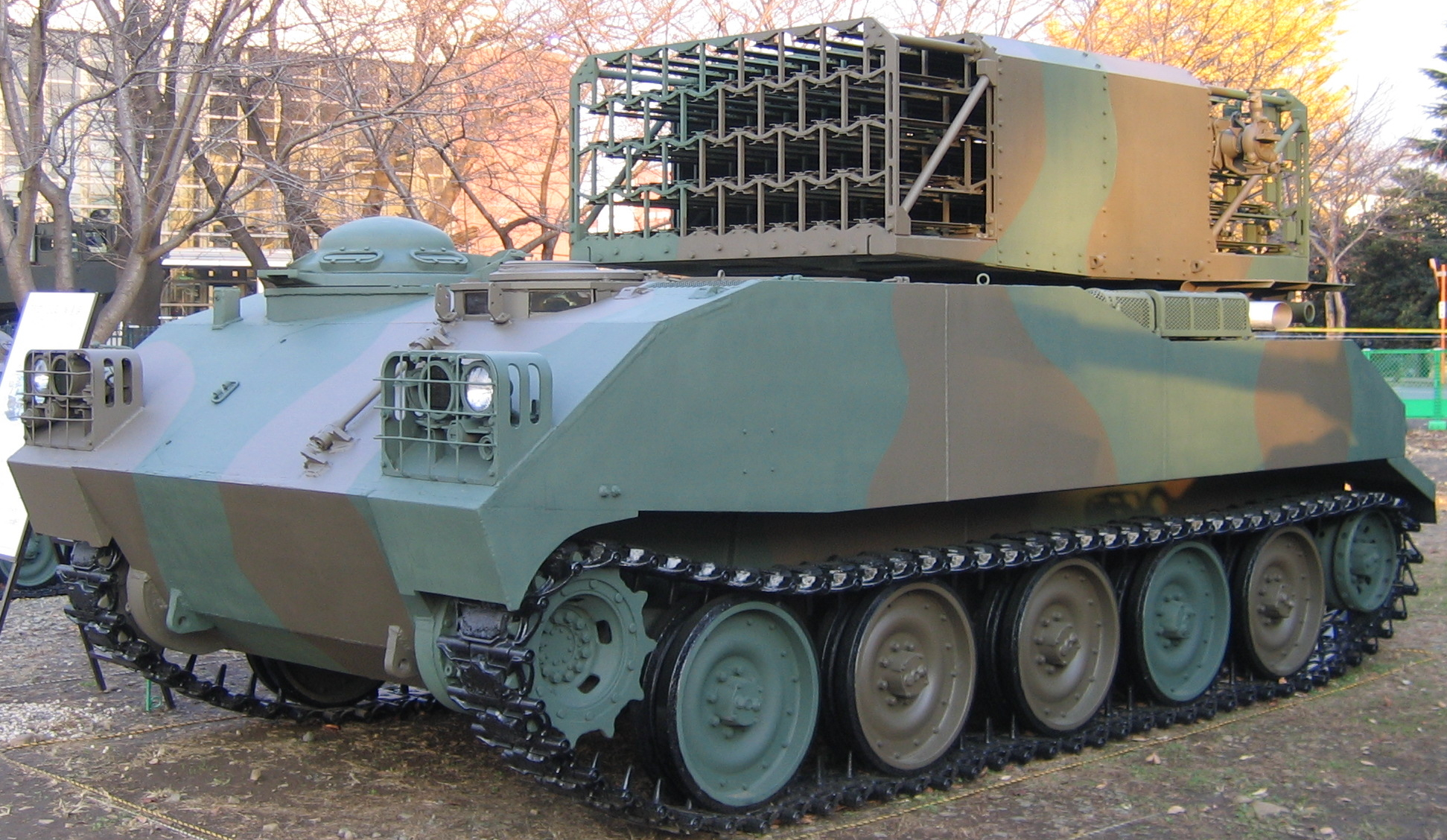 Left-front view of a Type 75 130 mm Multiple Rocket Launcher at the Sinbudai Old Weapon Museum, Camp Asaka, Japan